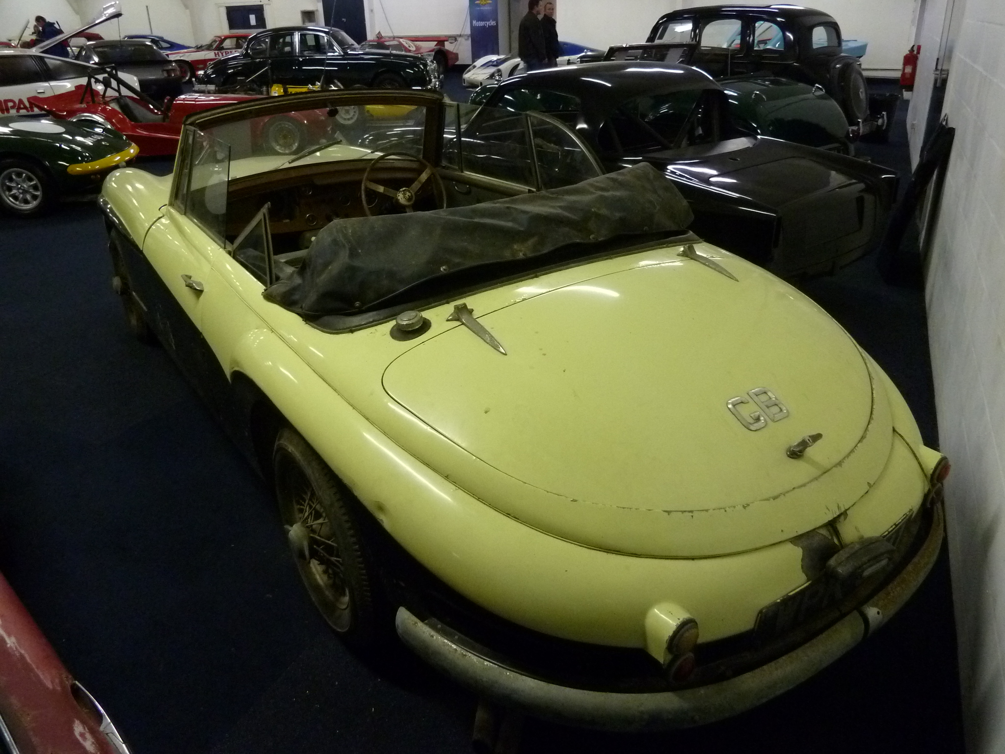 1954/55 Jensen 541 Drophead Coupe